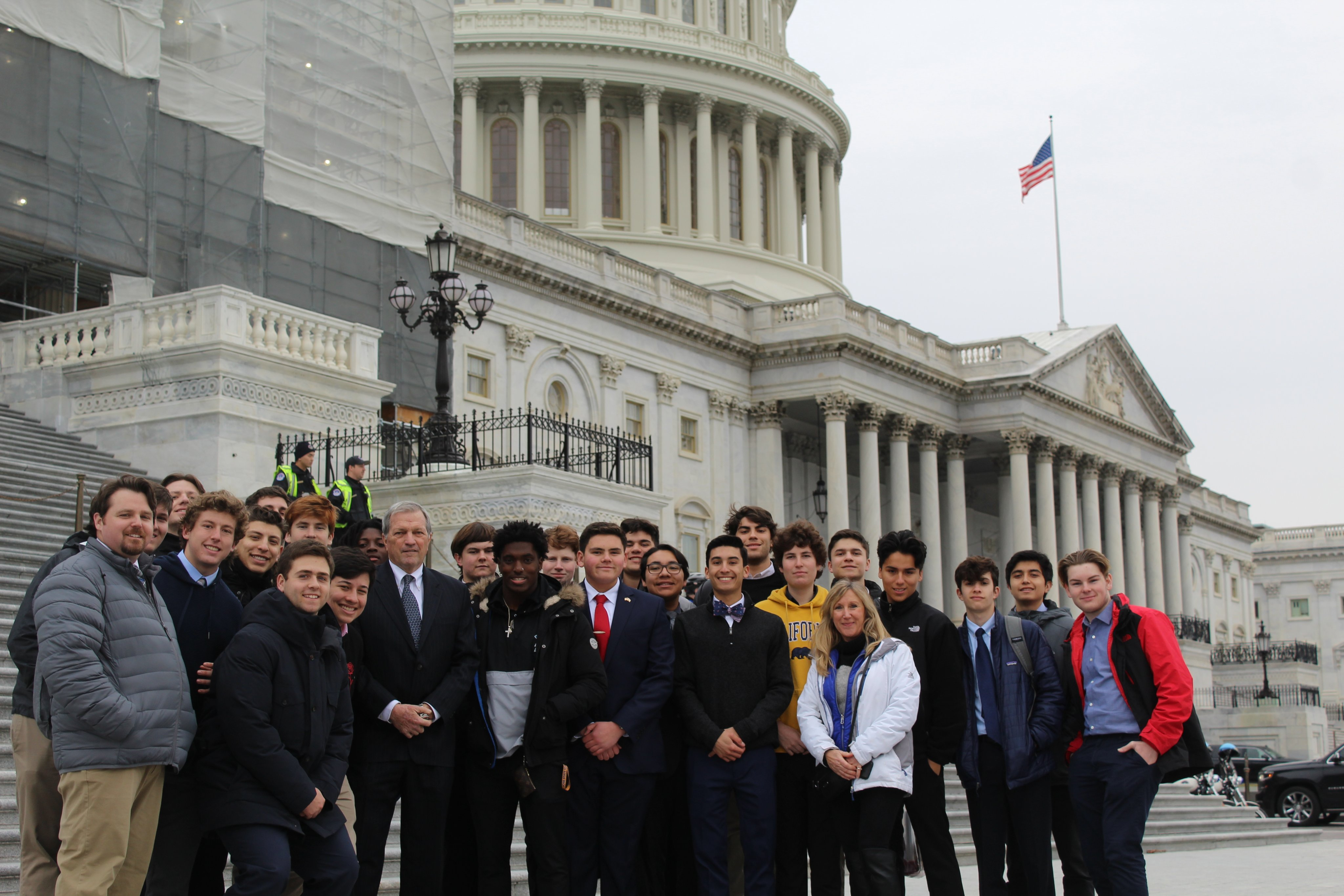 Students from De La Salle High School stopped by our office on their Washington, DC trip. I am always happy to meet with folks from back home here in the Capitol.